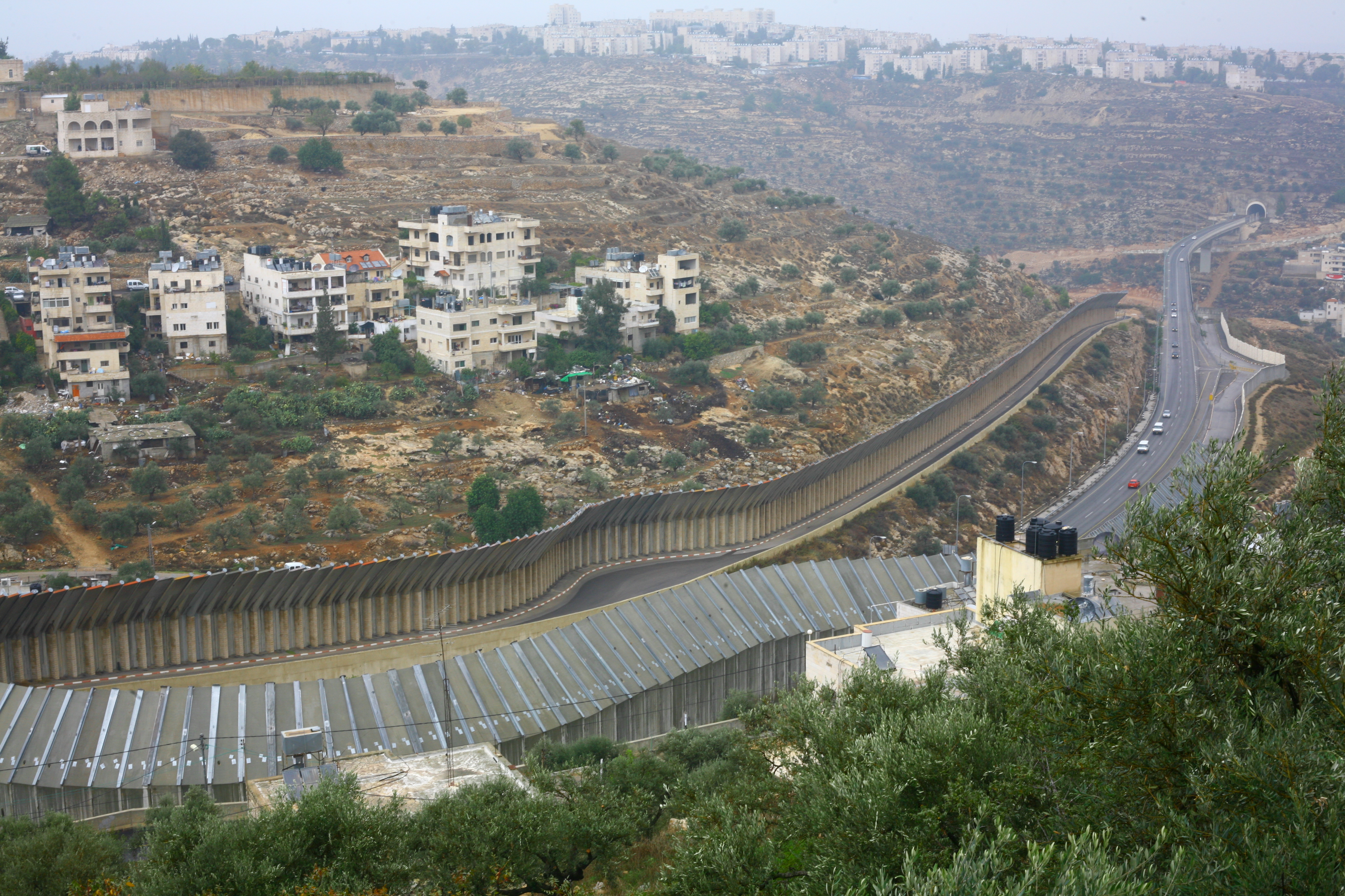 Road 60 Viaduct & Separation Barrier Beit Jala - Jerusalem